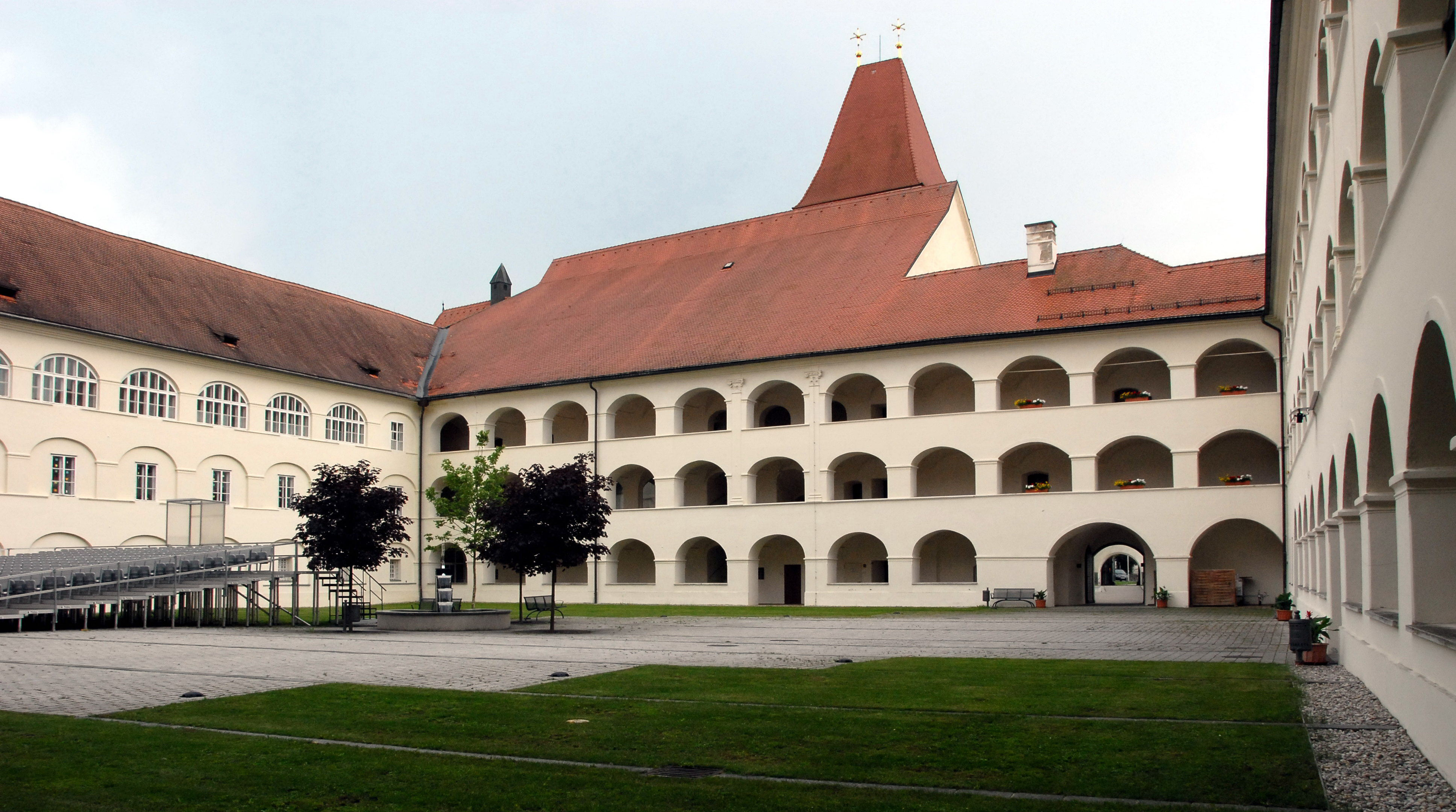 Ambulatory yard of the monastery, Eberndorf, district Völkermarkt, Carinthia / Austria / European Union